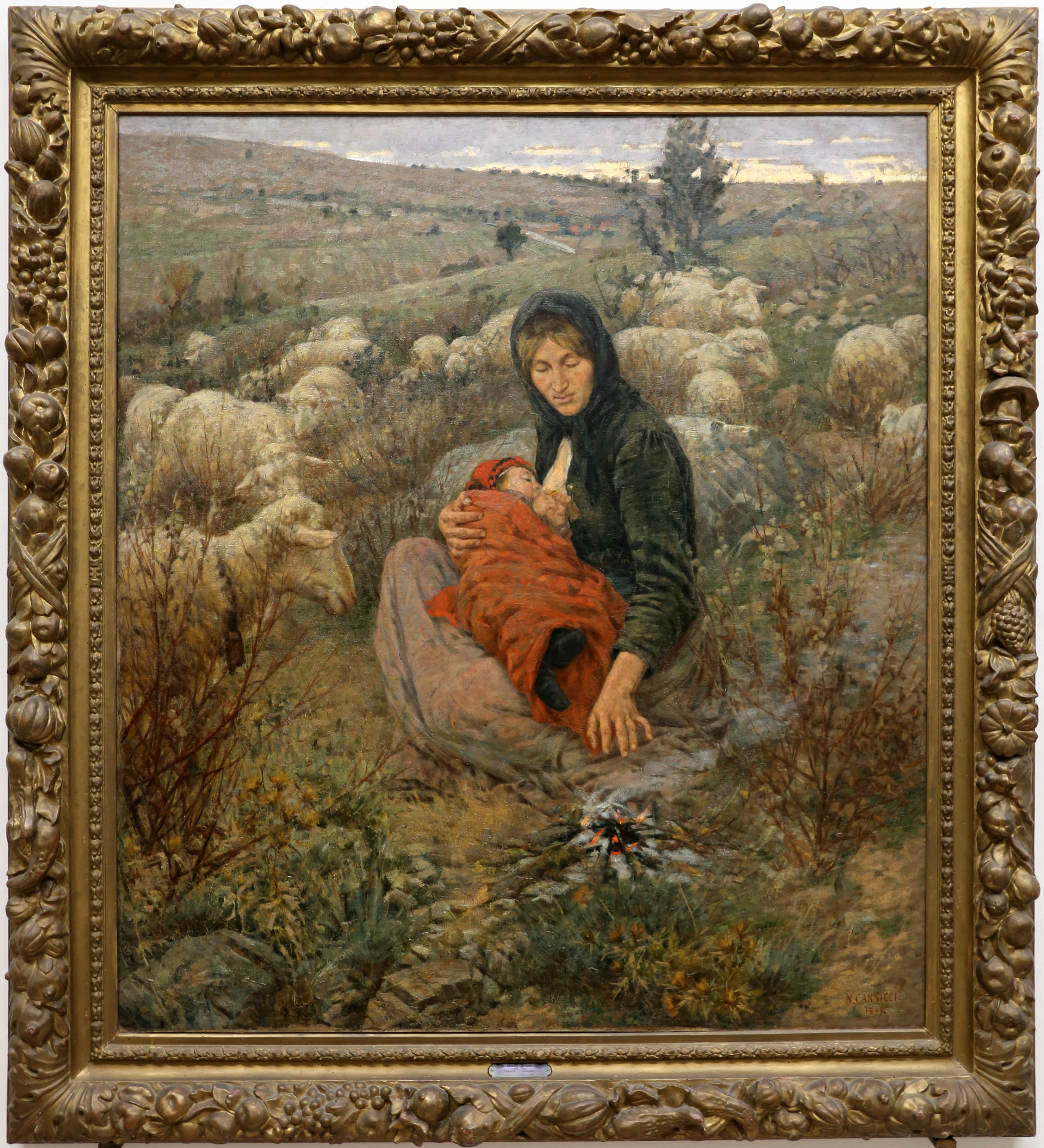 Cassa di Risparmio di Firenze art collection - Paintings